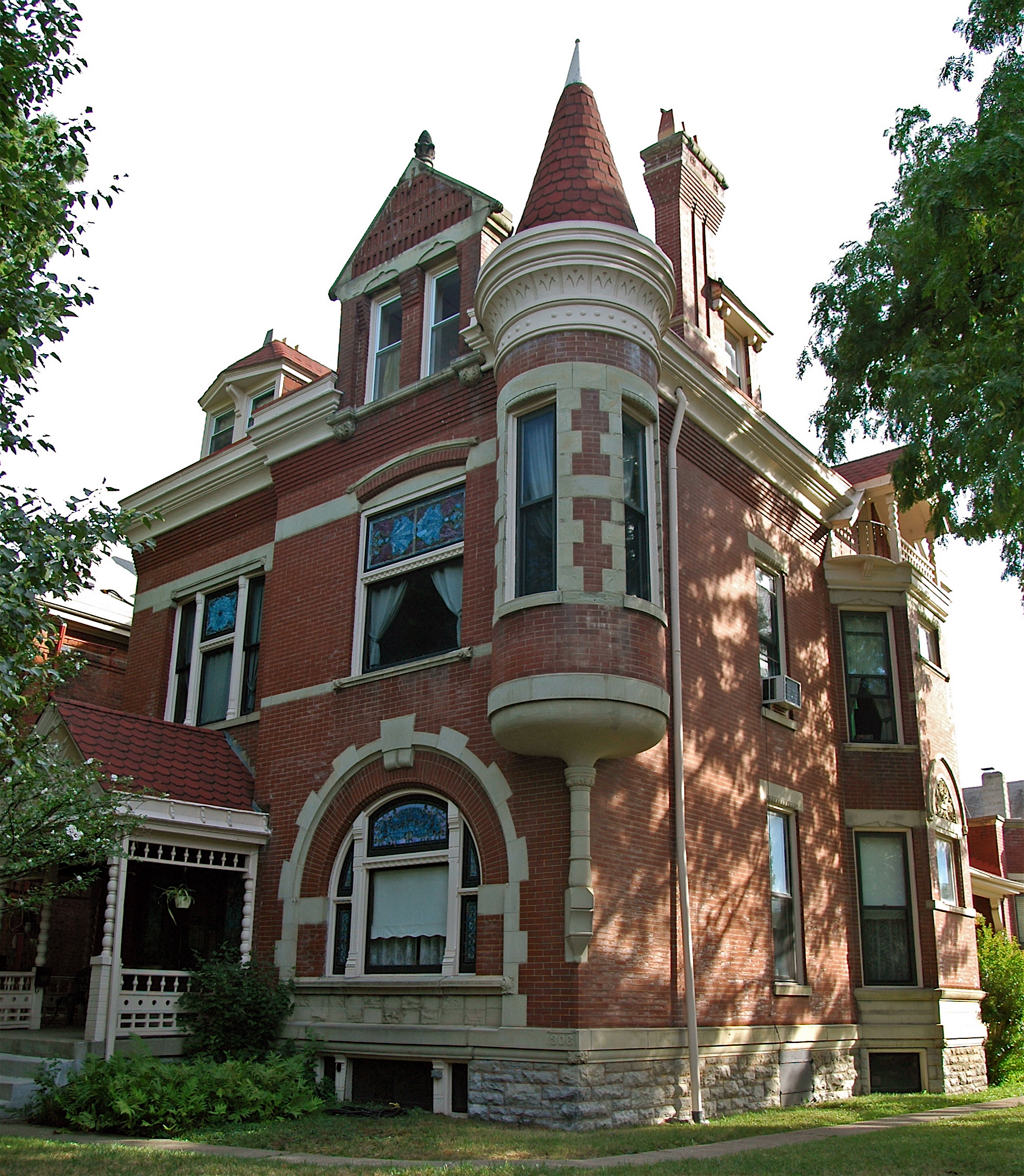 A building in the East Row Historic District of Newport, Kentucky.